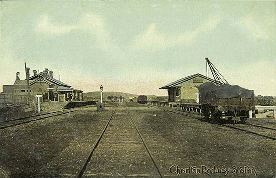 Charlton railway station with three tracks running between passenger and goods shed platforms. The centre track ends at a buffer in the distance. A man waits at the passenger platform. A covered goods wagon stands next to a crane next to the goods shed.